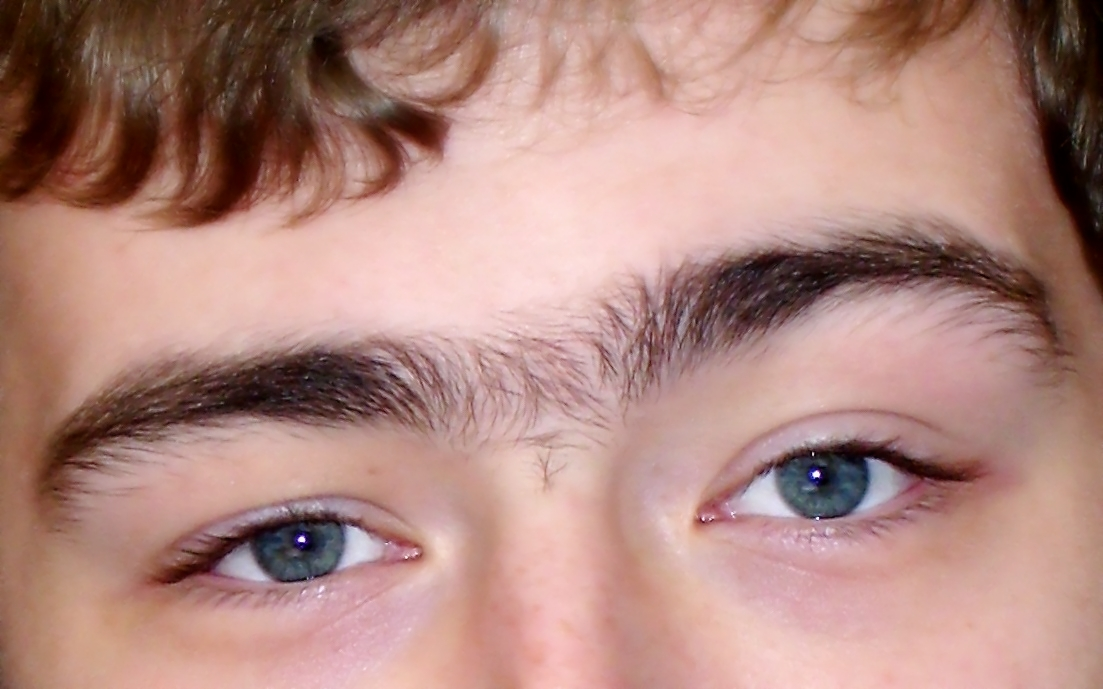 The upper part of the face of a young man with hair between the eyebrows. The subject has given permission for this image to be used to illustrate the human eyebrow.